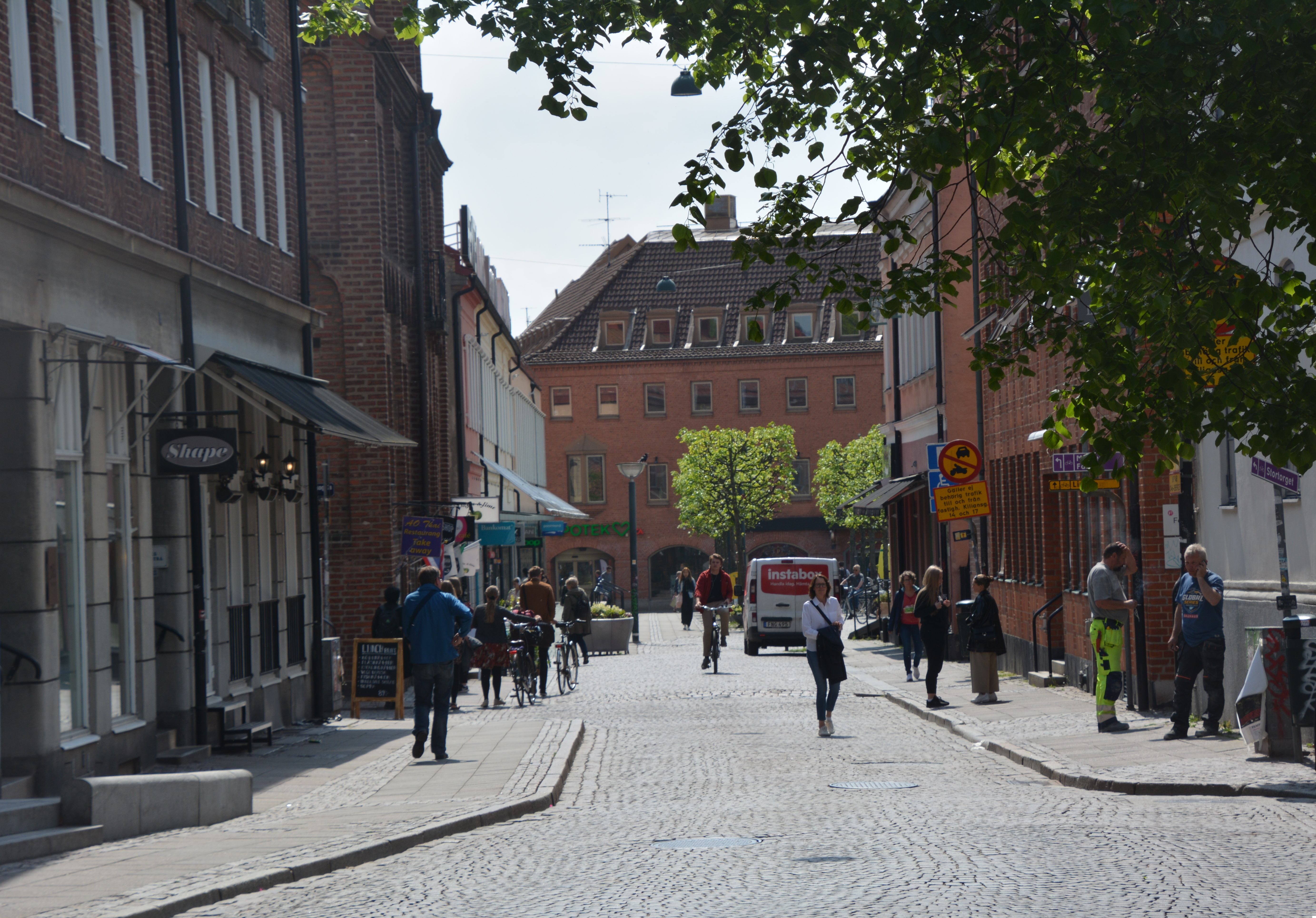 Kiliansgatan, Lund, Sweden. Photo taken from corner Magle lilla kyrkogata southwards towards Mårtenstorget, at noon a Monday in May.